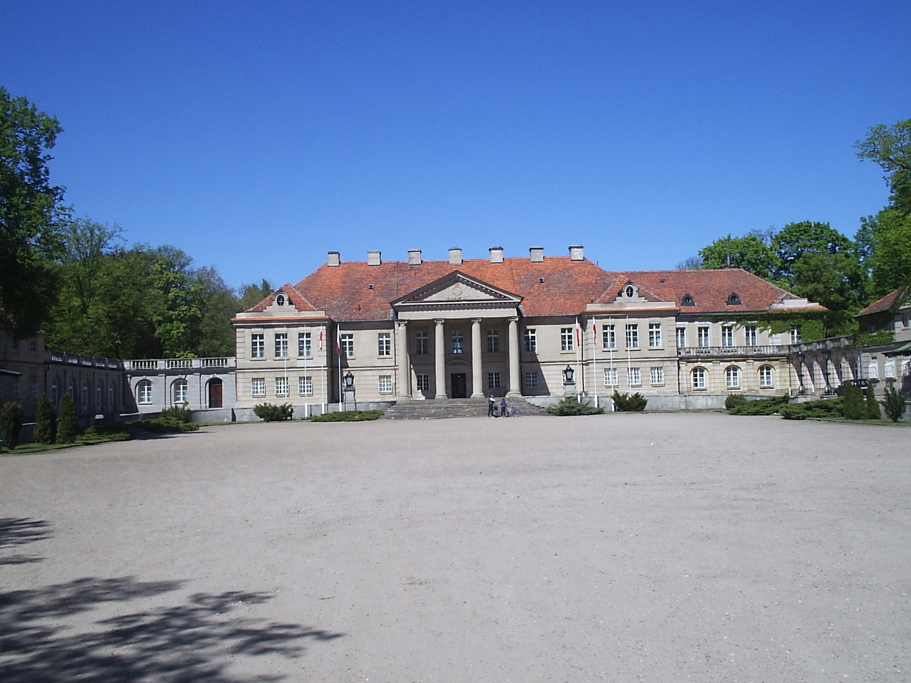 Palac in Czerniejewo, Poland